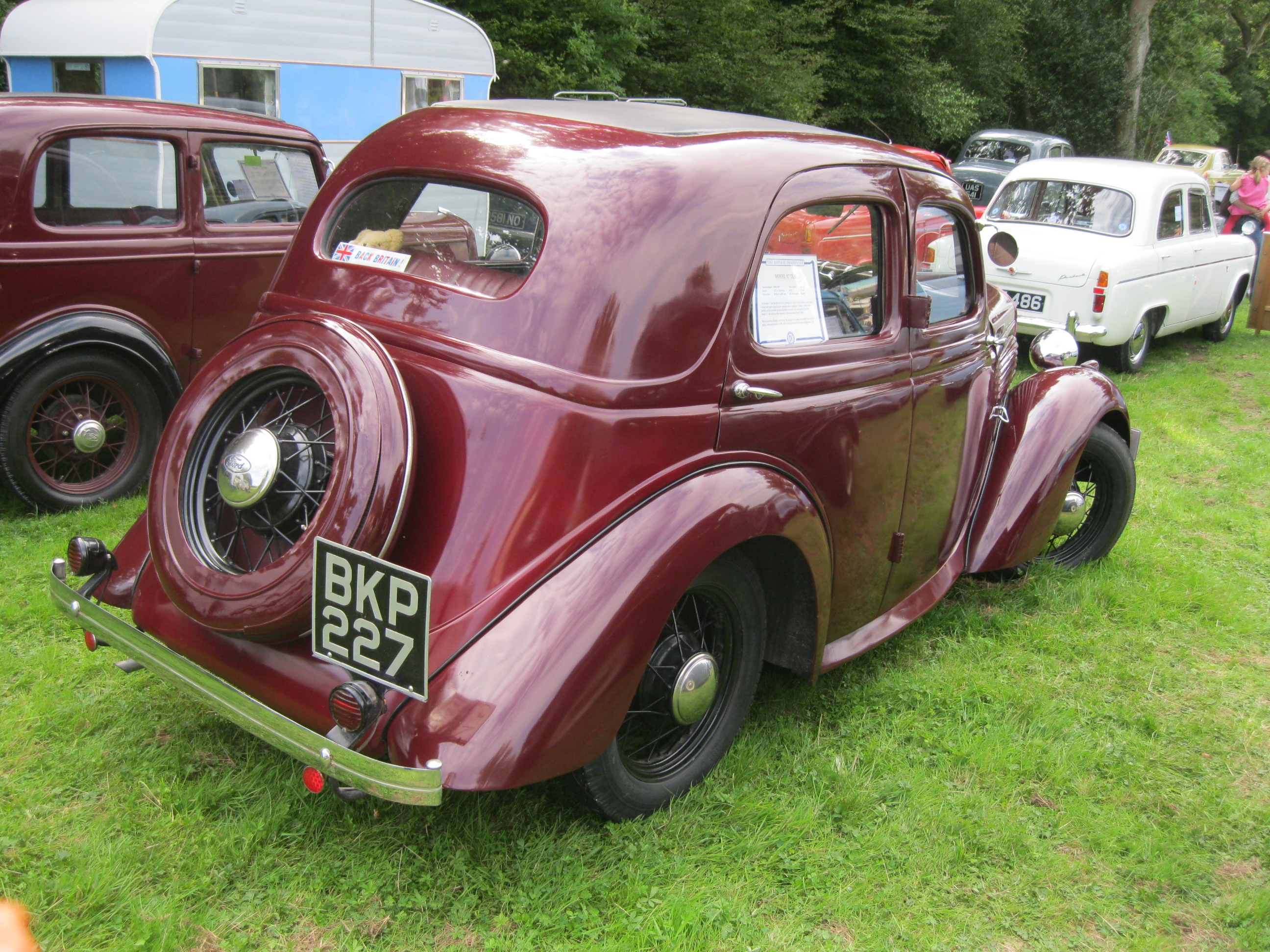 Great example of a 1930s Ford saloon - spotted at the Bluebell Railway's Transport Weekend at Horsted Keynes Station in August 2012.